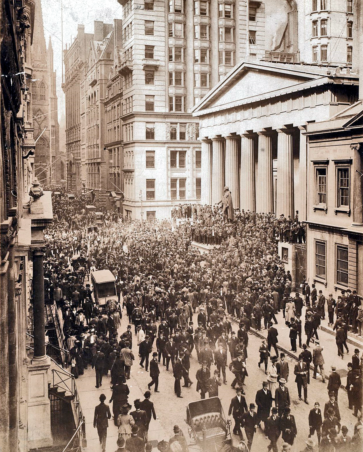 A crowd forms on Wall Street during the Bankers Panic of 1907.[1] From the New York Public Library’s Digital Gallery, in the Irma and Paul Milstein Division of United States History, Local History and Genealogy